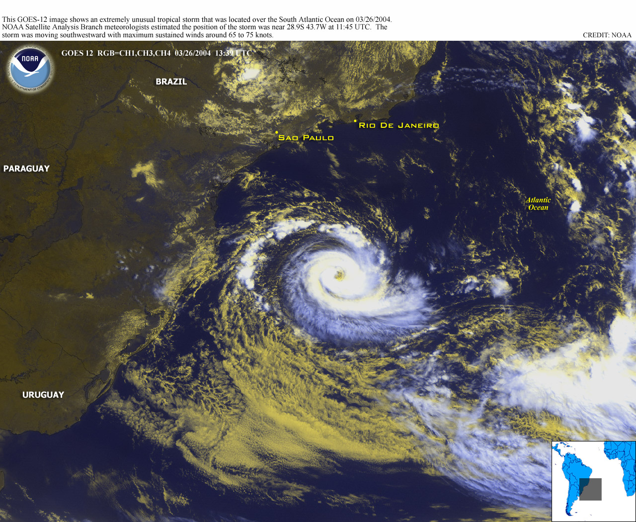 Image of Cyclone Catarina on March 26, 2004, the first South Atlantic hurricane ever recorded. See Image:Hurricane Catarina.jpg for an image taken closer to the time of landfall.